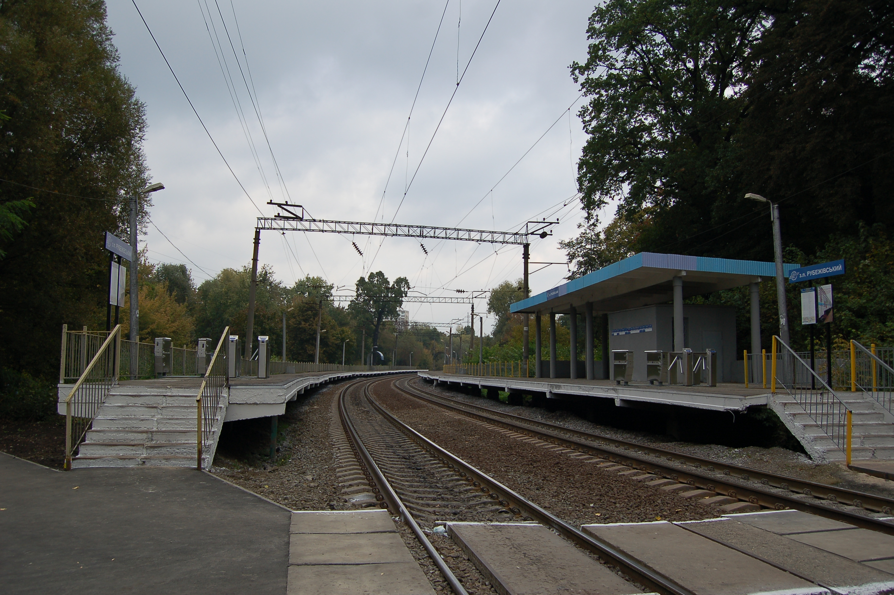 Rubezhivskyi train stop in Kiev.